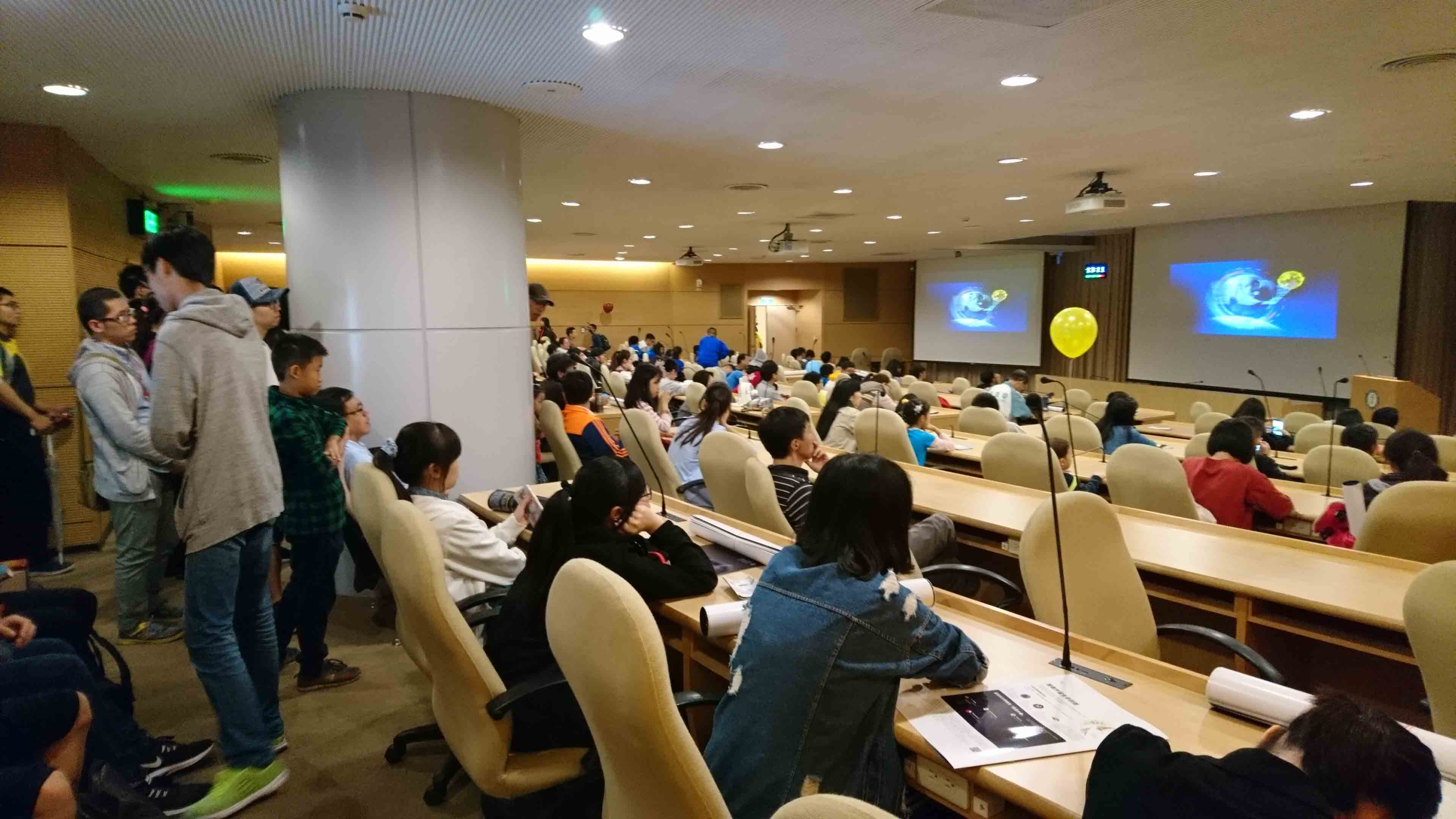 "Cosmos TV" Program promotes science achievements in AS Open House